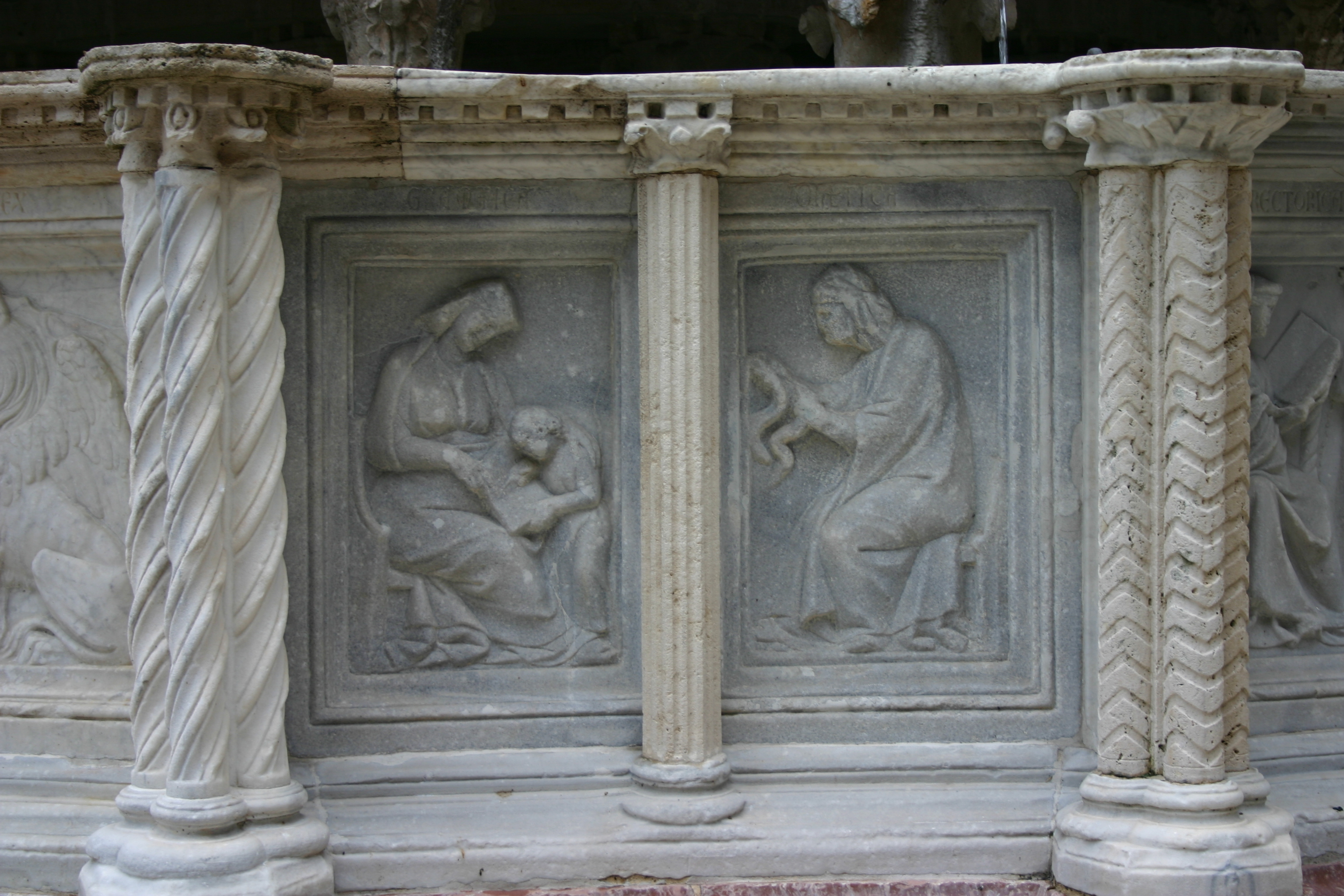 Perugia, the Fontana Maggiore (Main Fountain), sculpted after 1275 by Nicola Pisano and Giovanni Pisano. The Seven Liberal arts: Grammatica et Dialectica. Picture by Giovanni Dall'Orto, August 5, 2006.